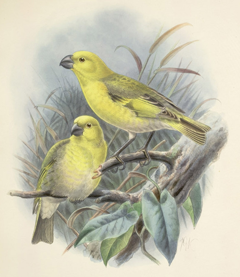 Laysan finch (Telespiza cantans) (Original Description: Telespiza flavissima) Explanation